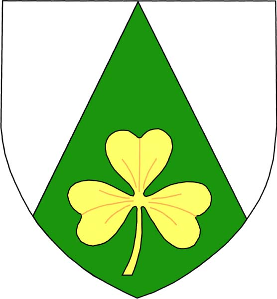 Coats_of_arms_of_Salacova_Lhota, Pelhřimov District, Czech Republic